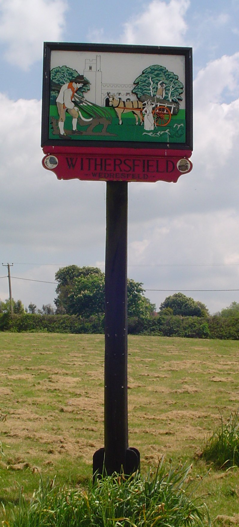 Signpost in Withersfield